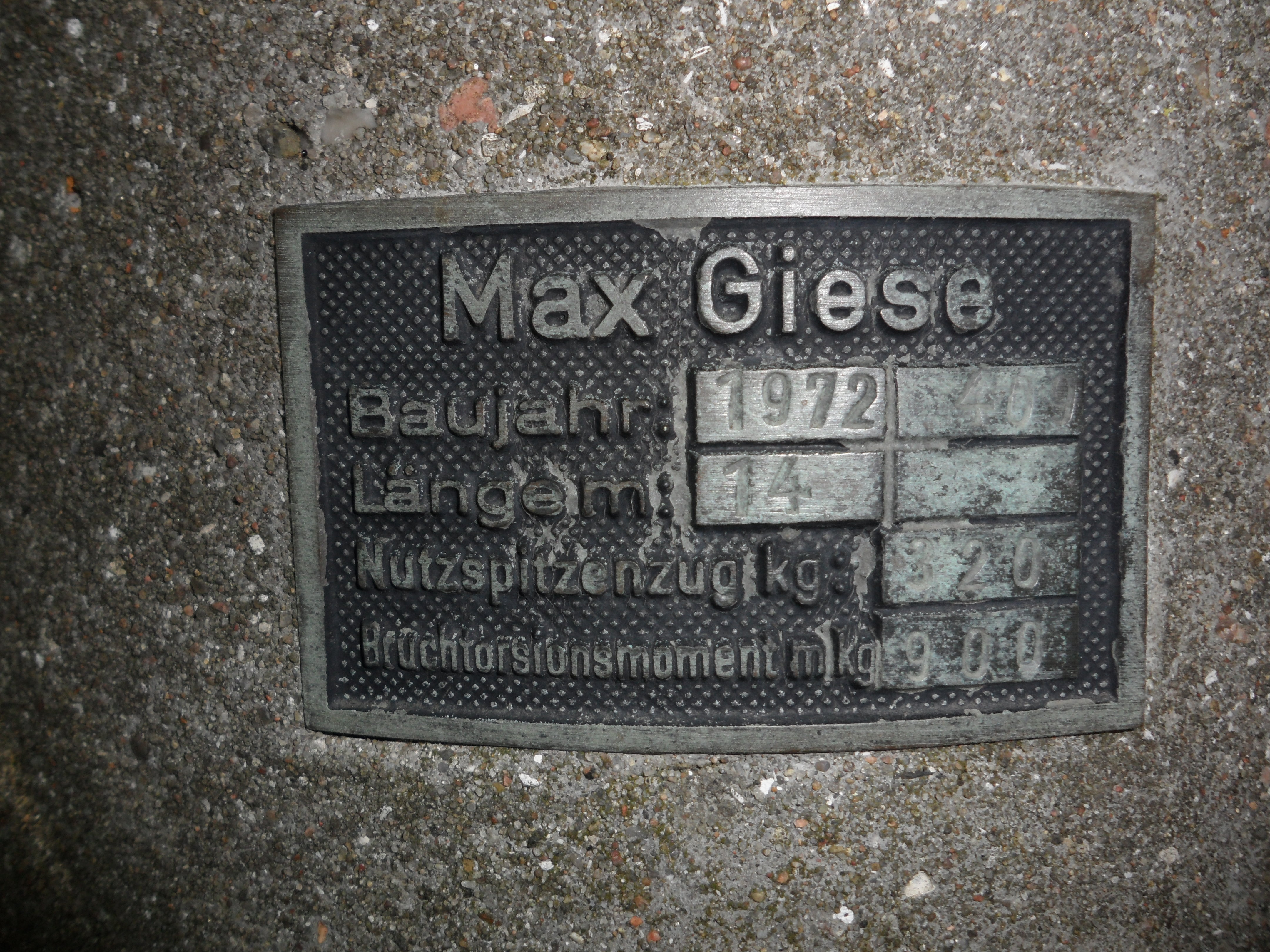 Companie sign on a Max Giese powerline tower made of concrete.